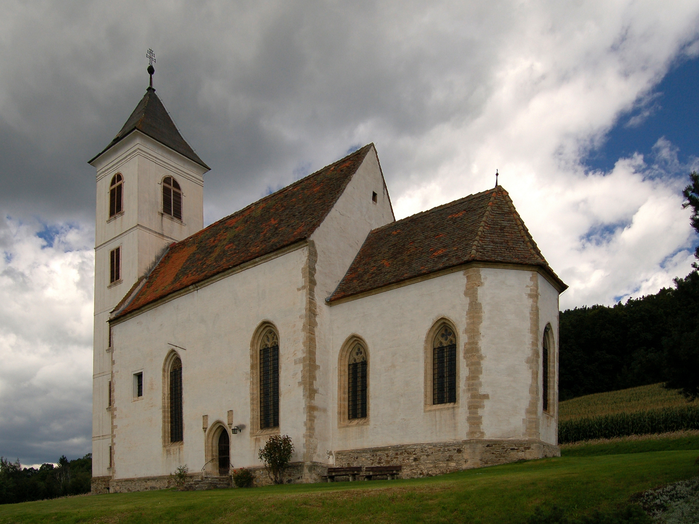 Pilgrimage church St. Anna, on the slopes of Masenbergs in the village Flattendorf, municipality Hartberg Umgebung, Styria, Austria.